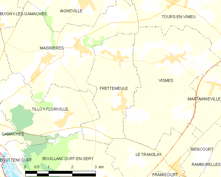 Map of French municipality Frettemeule